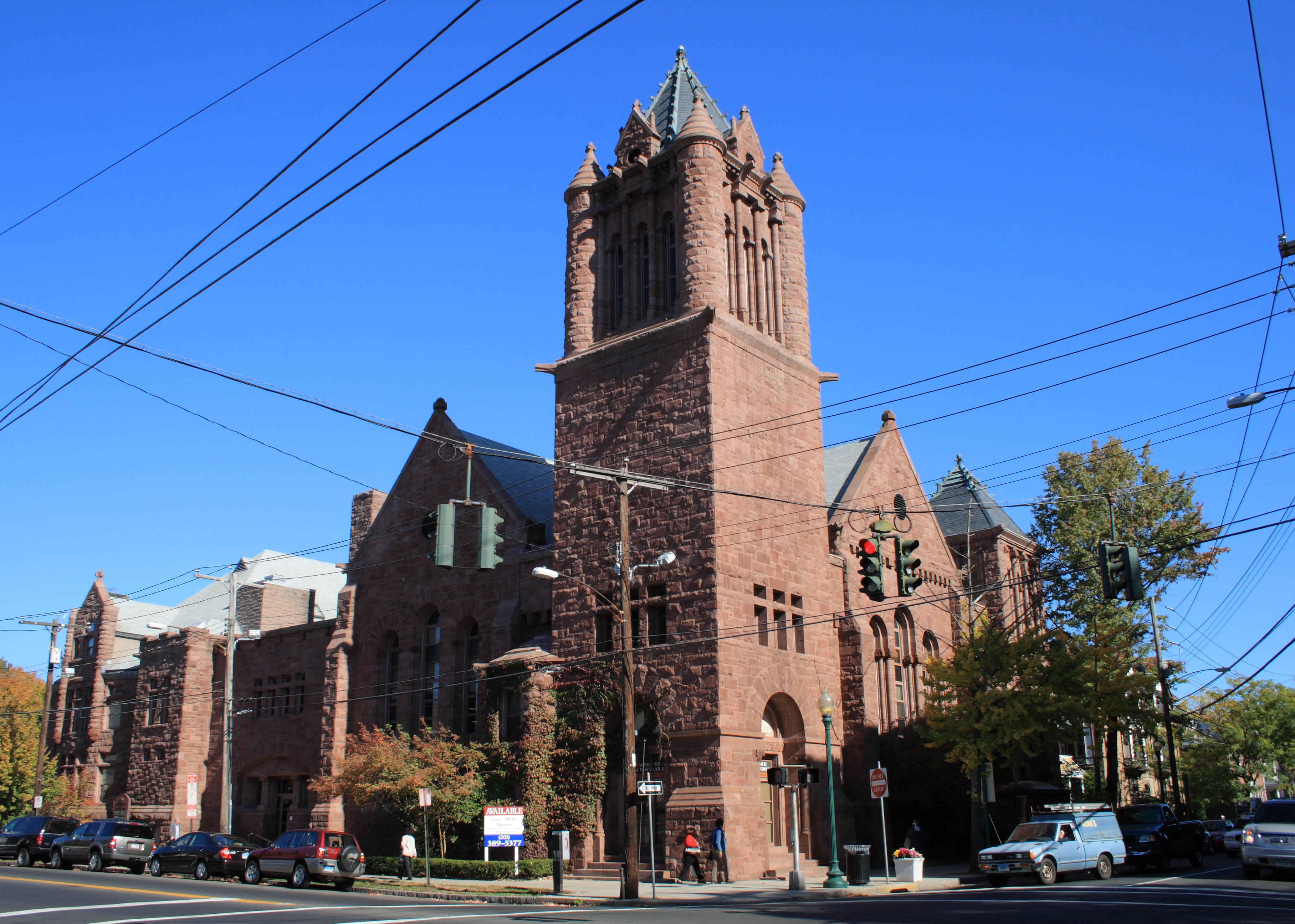 The Plymouth Congregational Church building, 1469 Chapel St., a Registered Historic Place in New Haven, Connecticut.